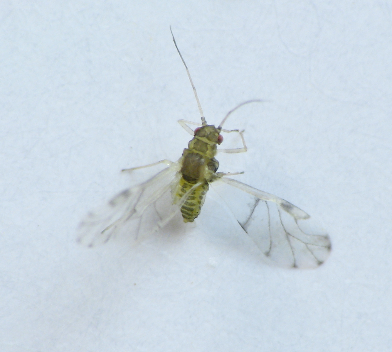 Milkweed aphid, Myzocallis asclepiadis, winged adult, on Asclepias syriaca. Size: Almost 2 mm. Schuylkill Nature Center, Philadelphia County, Pennsylvania, USA.